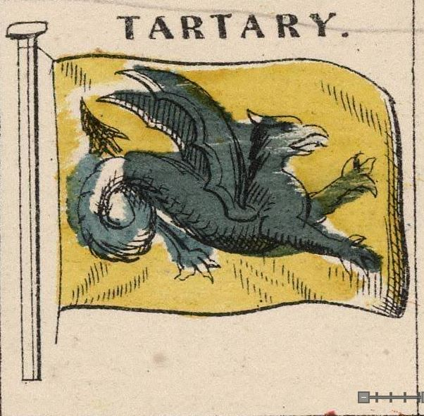 Flag of Tartary from an 1865 book